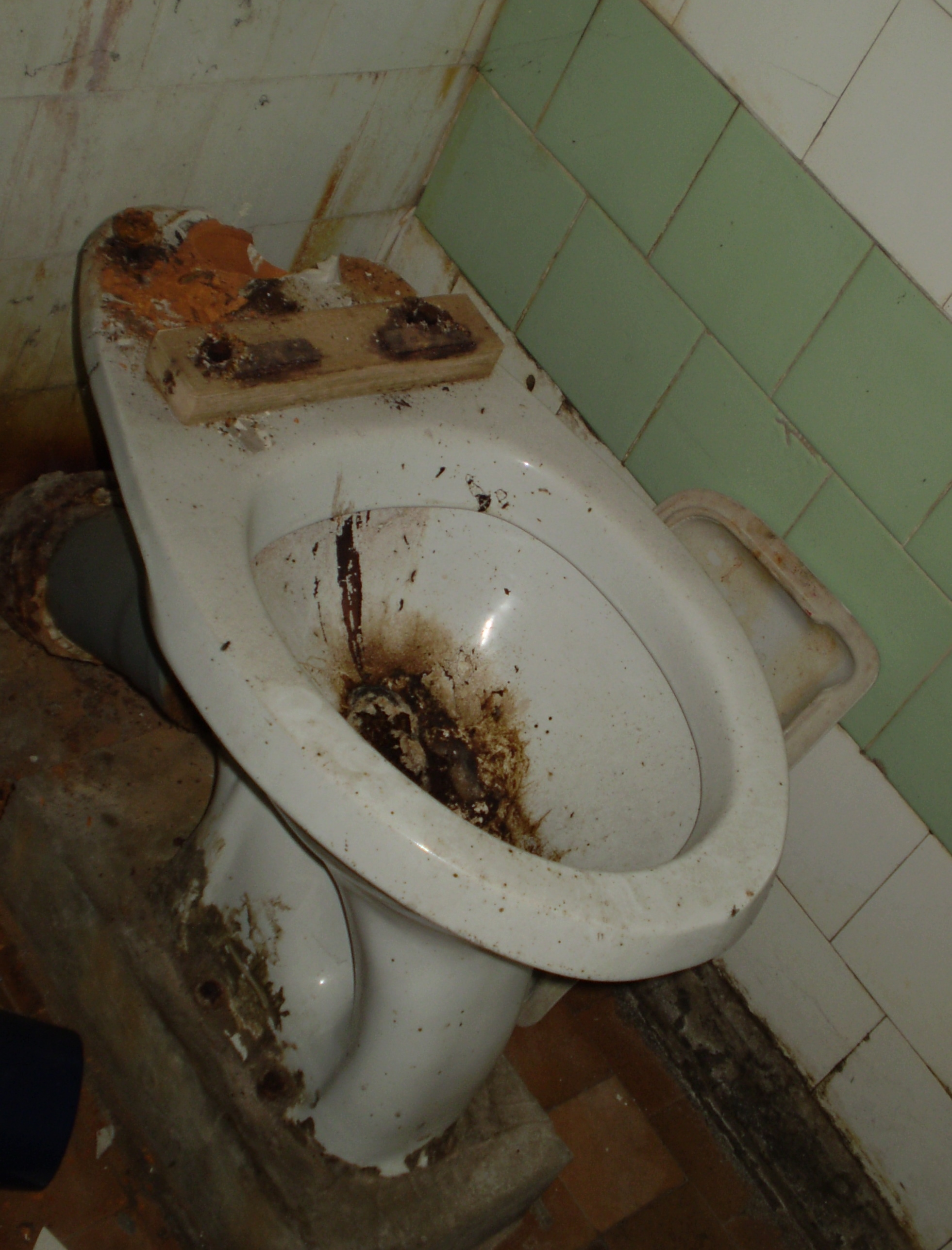 A toilet in an abandoned house in Kuldiga, Latvia.